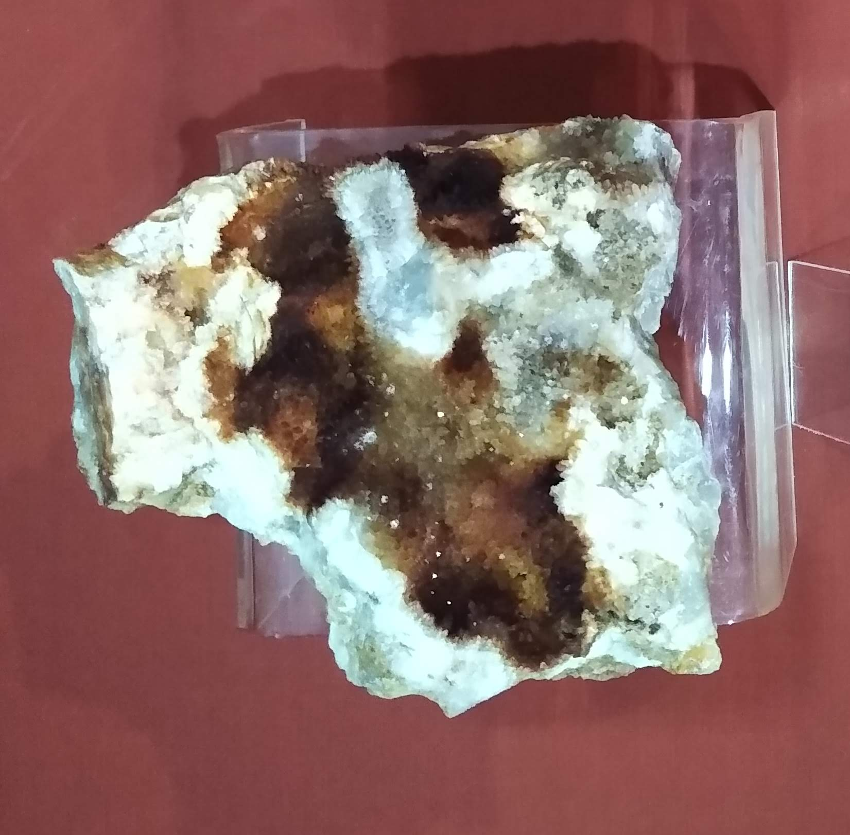 Native copper from Copper Khanong mine, Sepon mine, Vilabouli District, Savannakheth Province, Laos. On display at the Kaysone Phomvihane Museum in VIentiane, Laos.